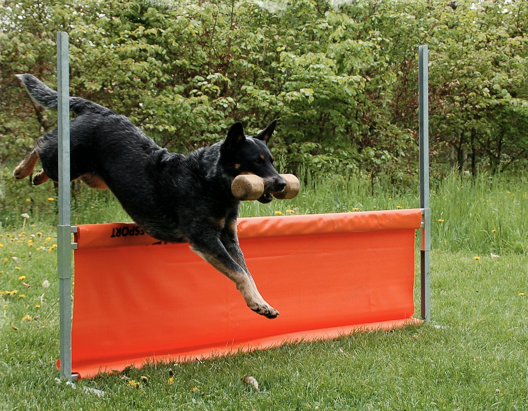 ACD Silla obedience